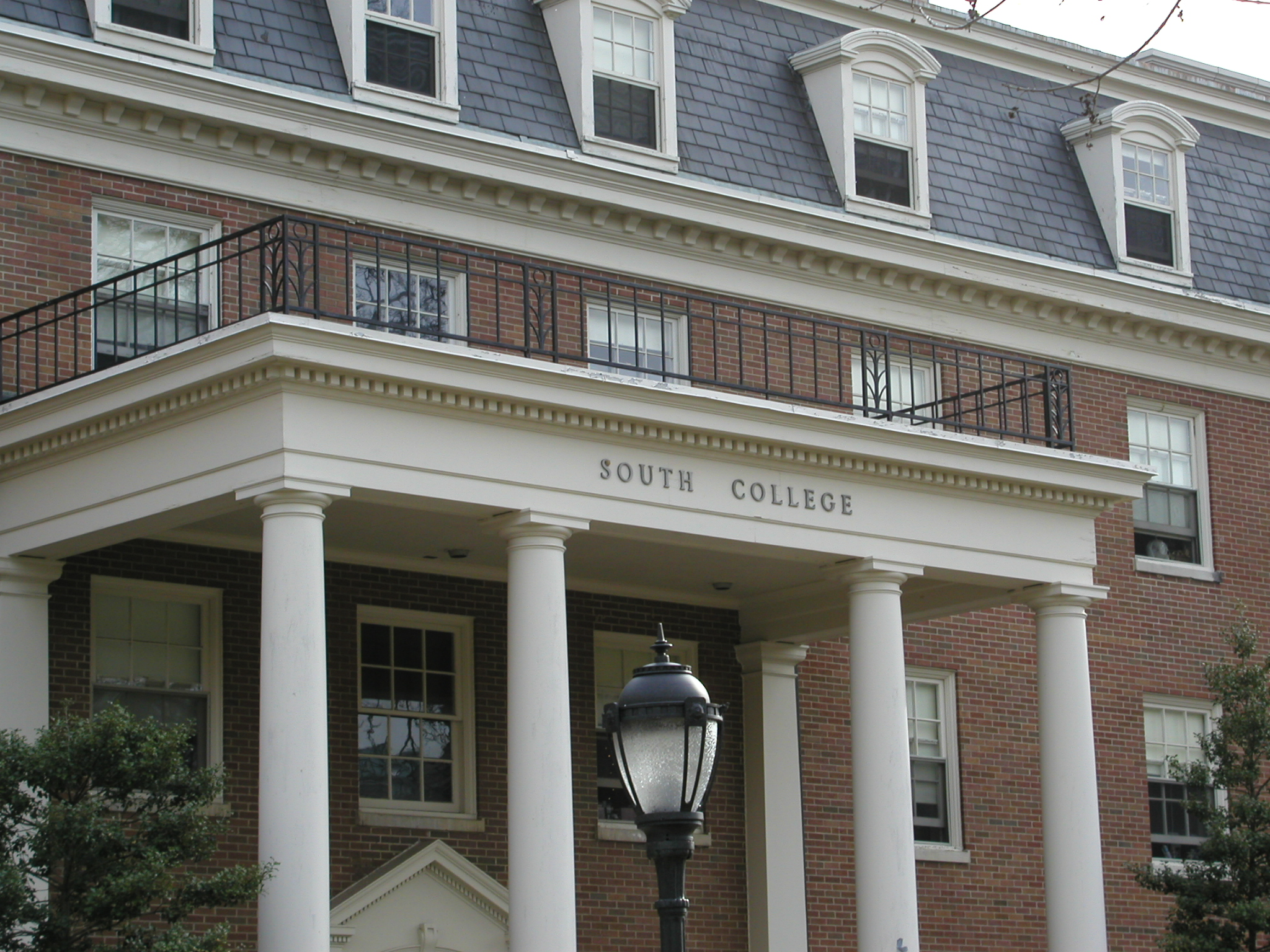 The South College building at Lafayette College in Easton, Pennsylvania, United States. This building is currently being used as a dormitory [1].